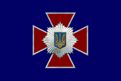 Flag of Ukrainian Internal Troops